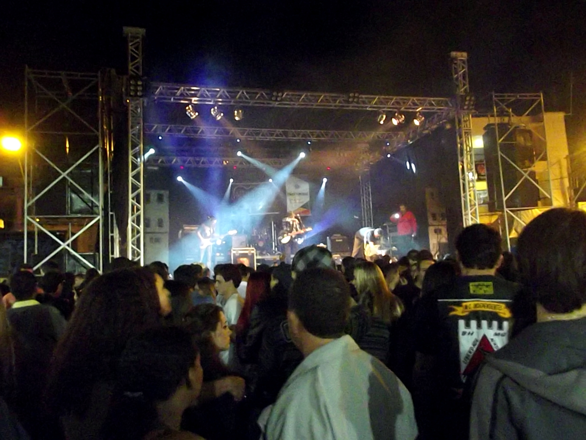 Creedence Cover band in Pará de Minas, Minas Gerais, Brazil, during the National Meeting of Motorcyclists.